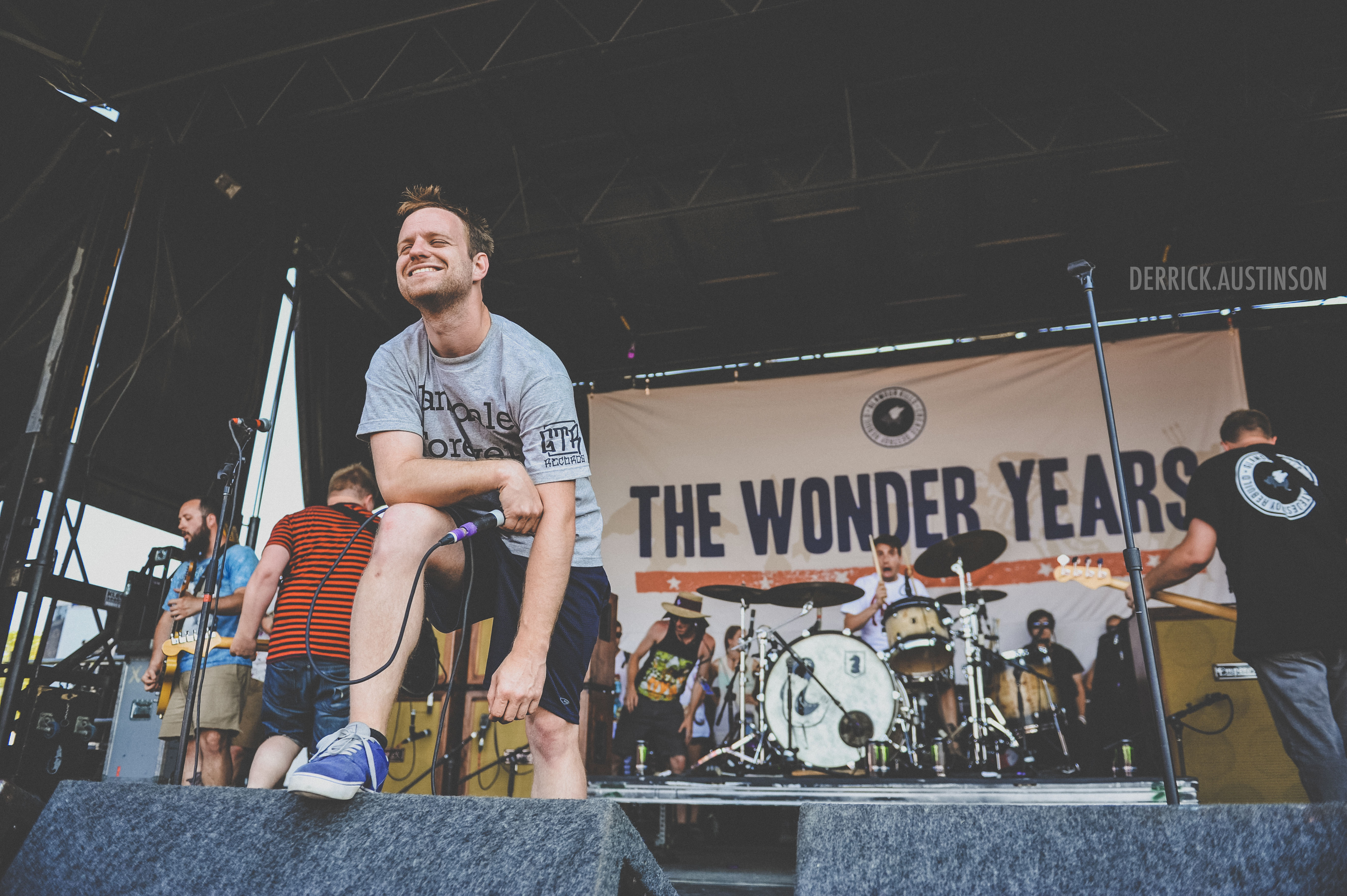 The Wonder Years performing at Vans Warped Tour 2013 in Mesa, Arizona ll Quail Run Park